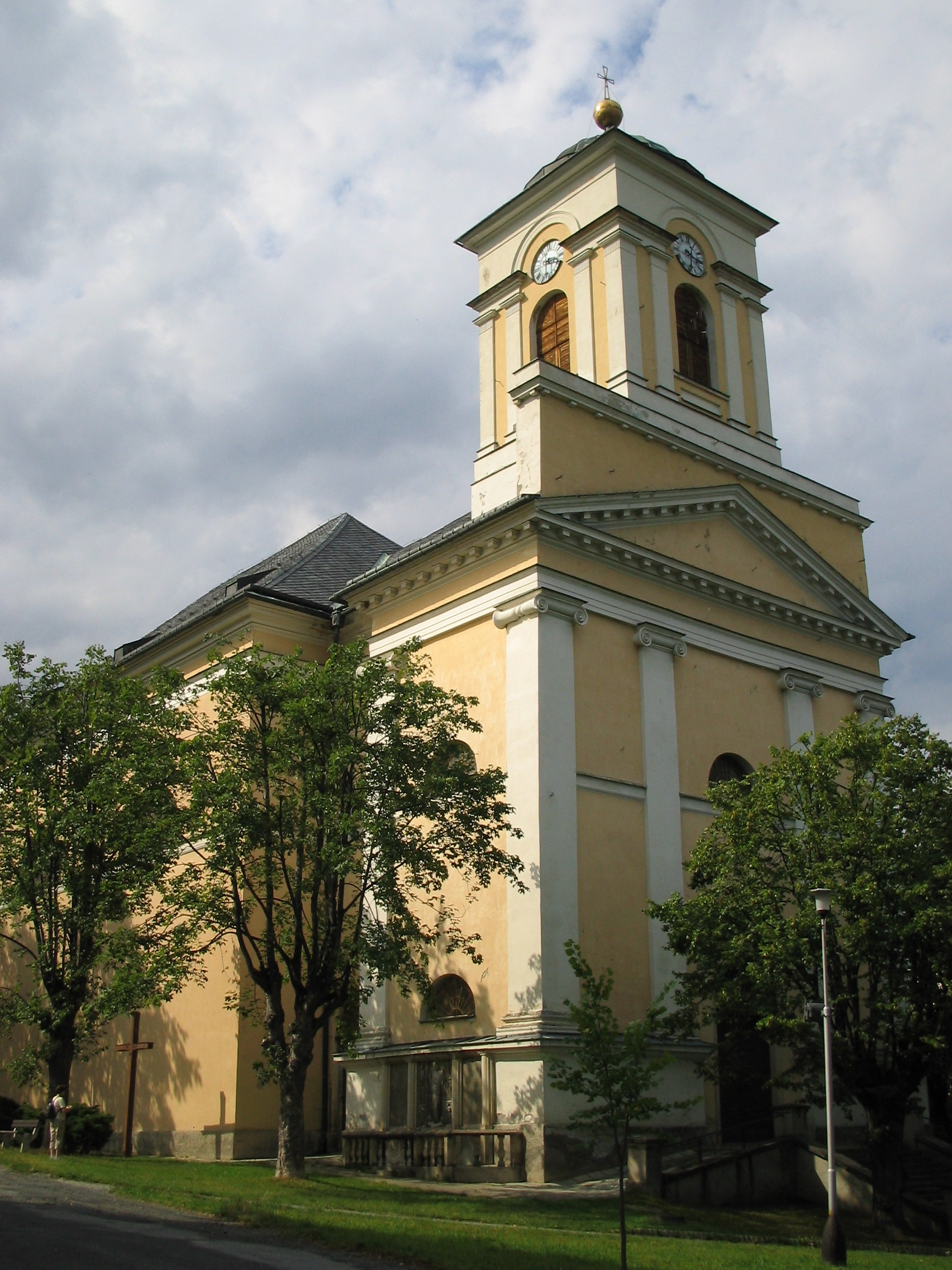 Church of Archangel Michael in Vrbno pod Pradědem, Czechia